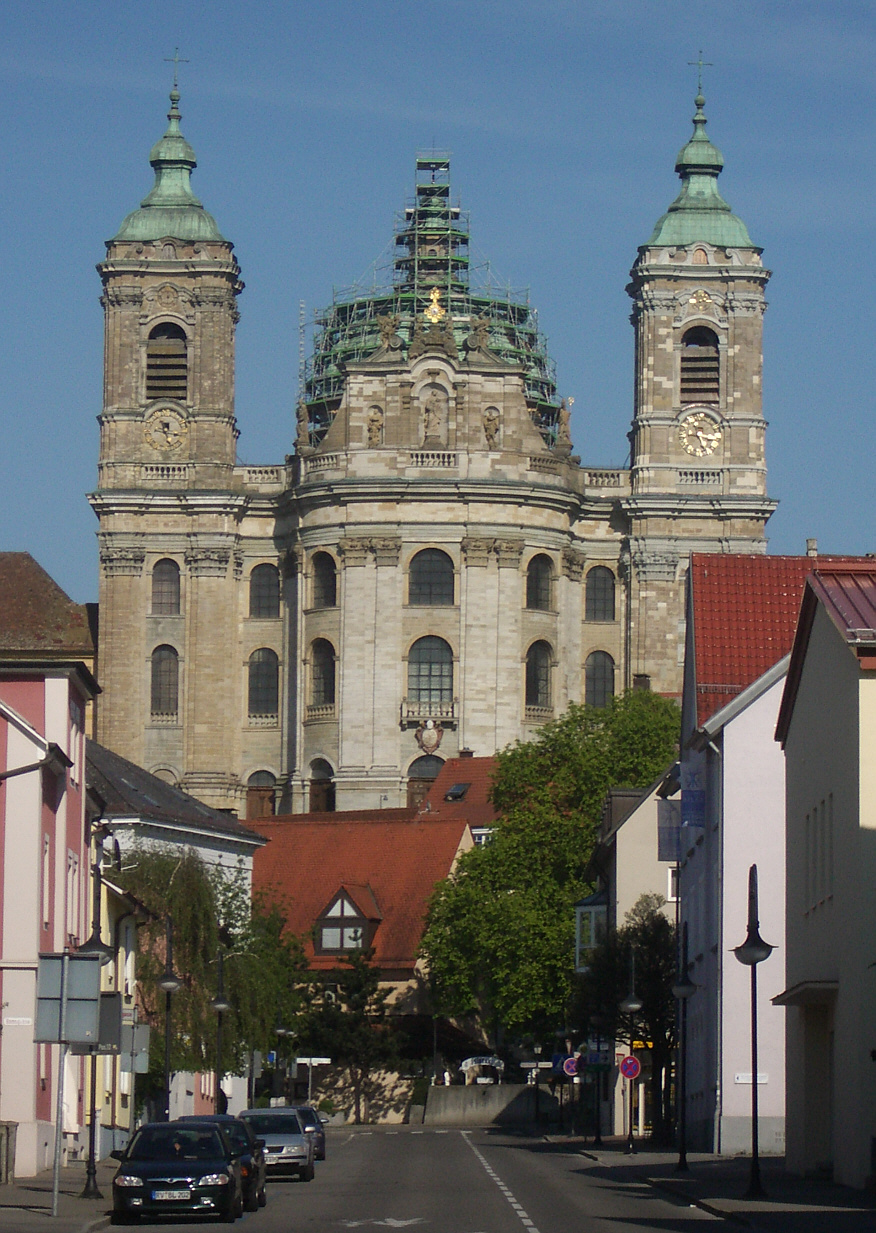 Weingarten, Germany: Basilika St. Martin, façade from Abt-Hyller-Straße (during refurbishment of the dome)